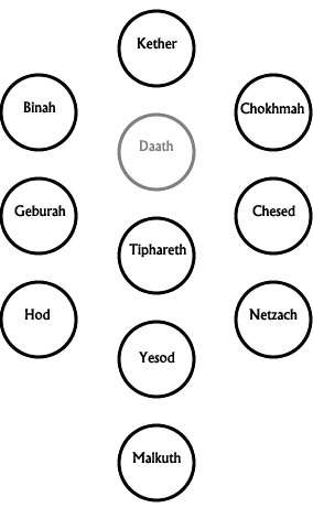 Hermetic Qabbalah, the sefirot without paths. morgan at wirejunkie dot com Morgan Leigh 08:16, 23 June 2006 (UTC)